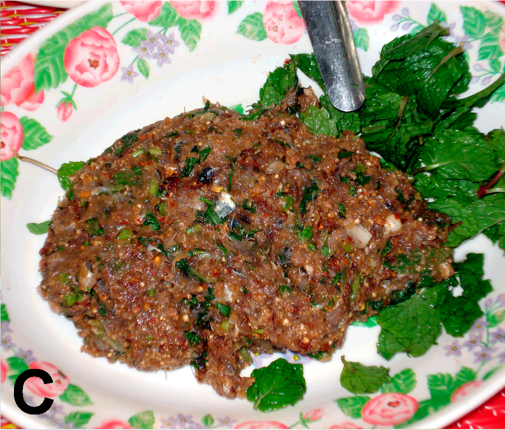 The finished dish of koi-pla accompanied by rice and vegetables. This dish is a dietary staple of many northeastern Thai villagers and is a common source of infection with Opisthorchis viverrini.